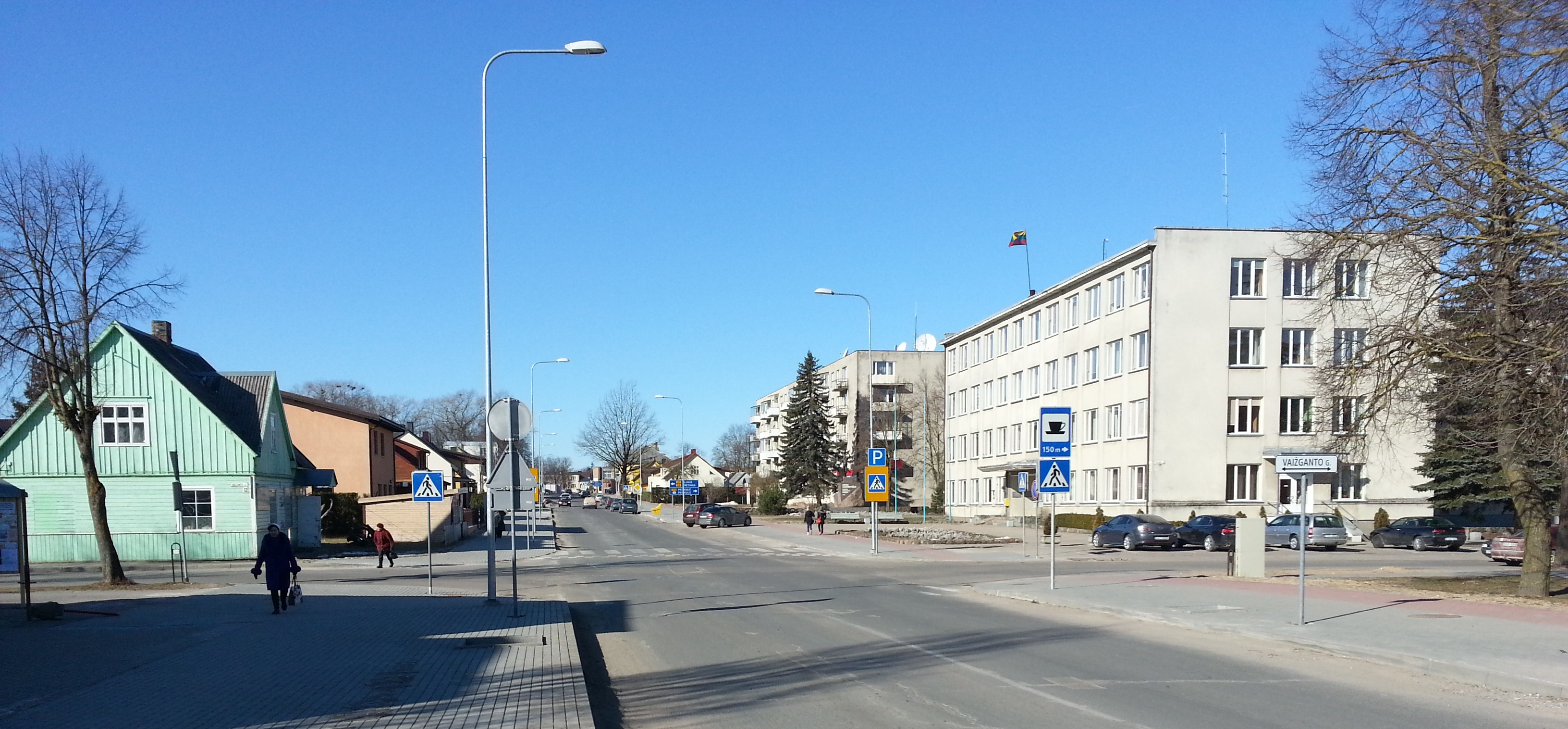 Vilnius str. in Skuodas - one of the main streets in the city